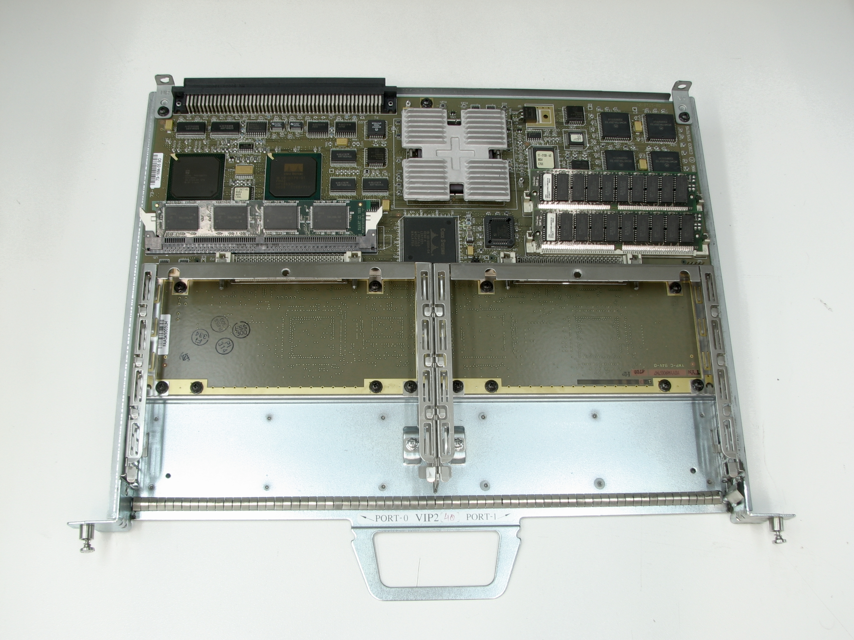 Cisco VIP 2-40 (Versatile Interface Processor). The two Port Adapter slots are empty.